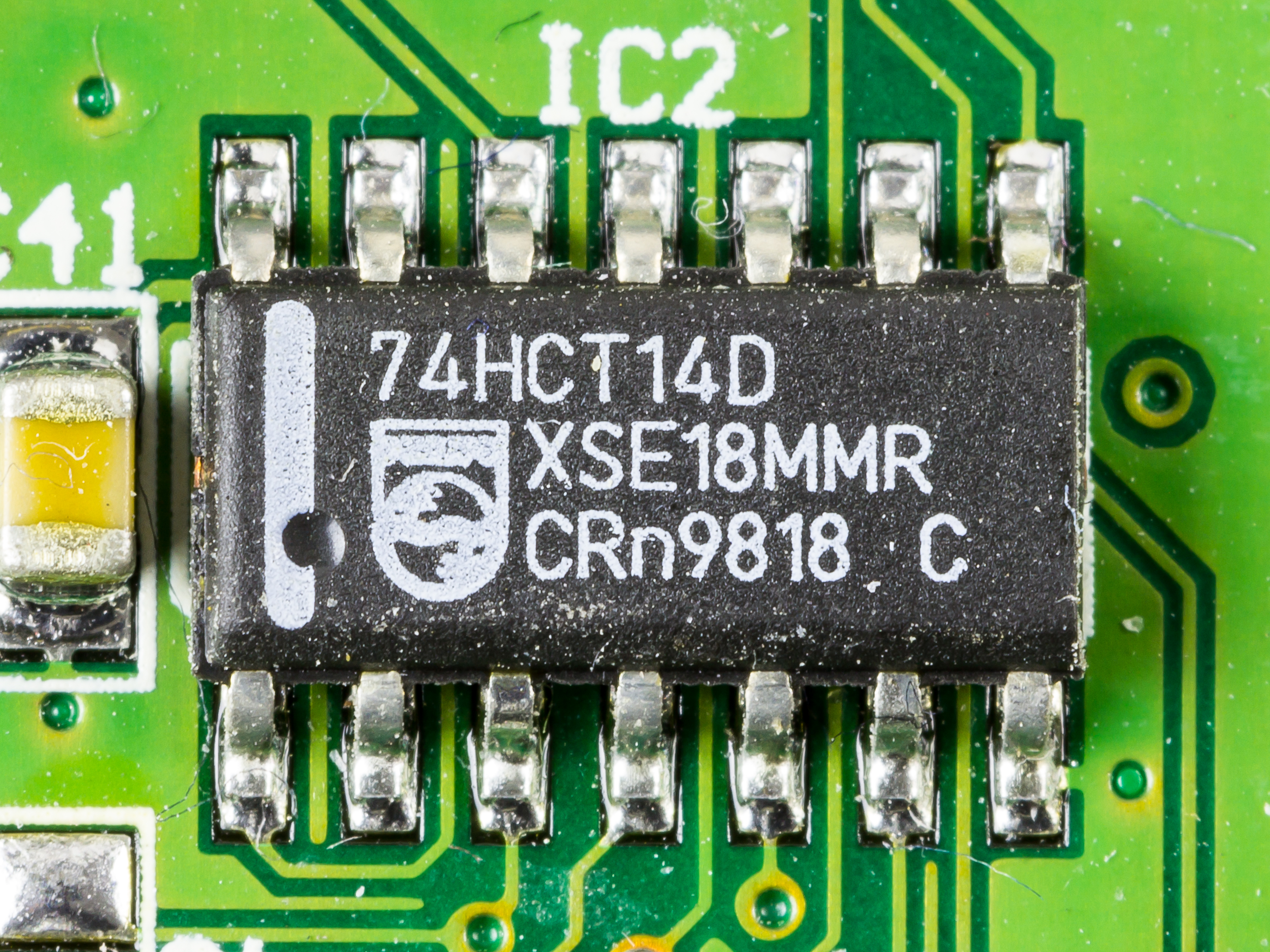 Elsa Victory Erazor-AGP-4 - Philips 74HCT14D - Hex inverting Schmitt trigger